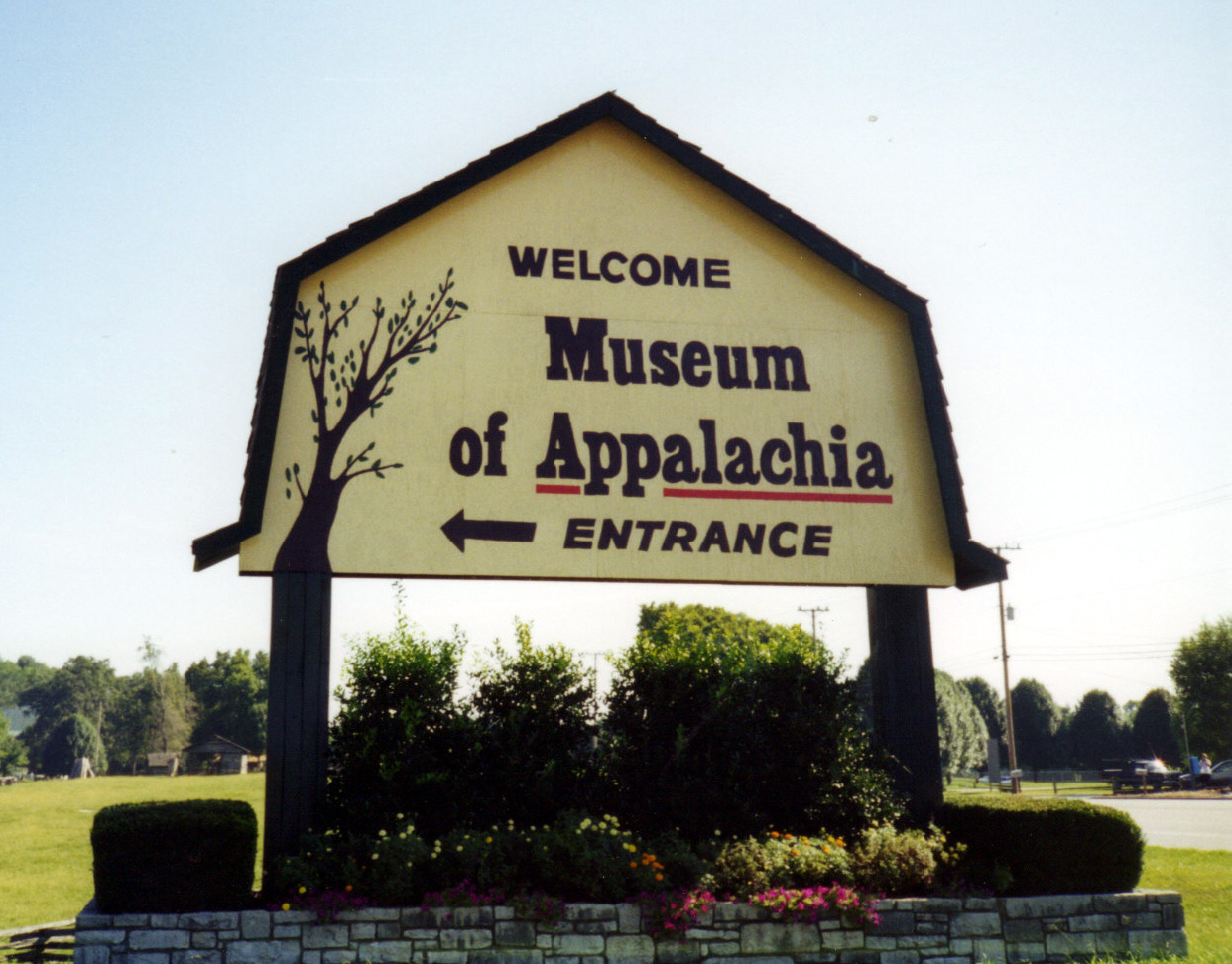 Sign at entrance of Museum of Appalachia, Norris, United States. Photo taken summer 1998. Self-made photo.